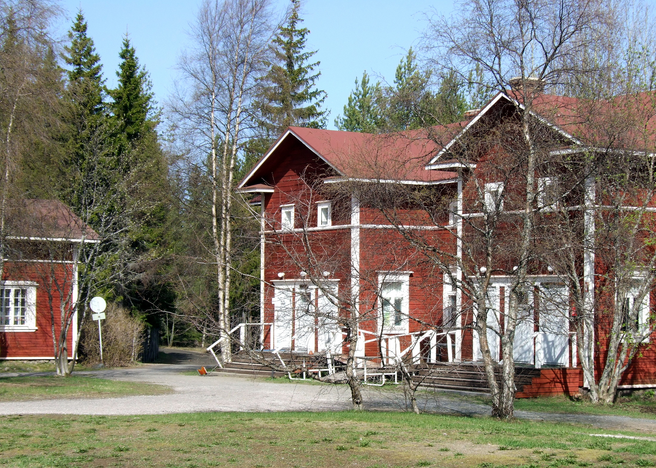 The Varjakka Manor house in Oulunsalo, Finland.